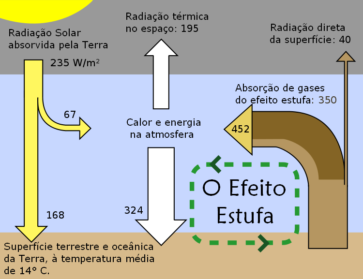 Portuguese version of Image:Greenhouse Effect.svg